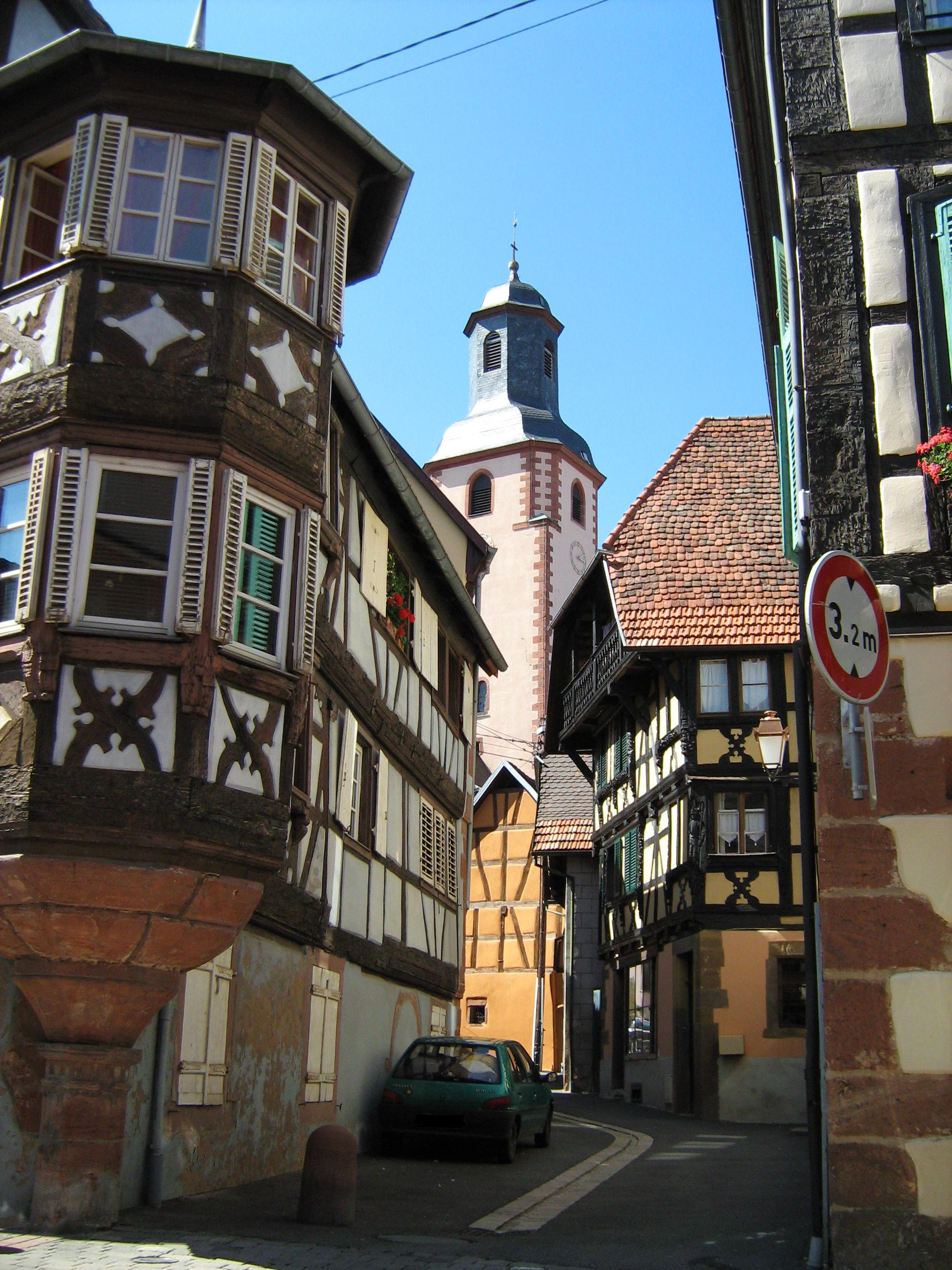 Bouxwiller (67), France.